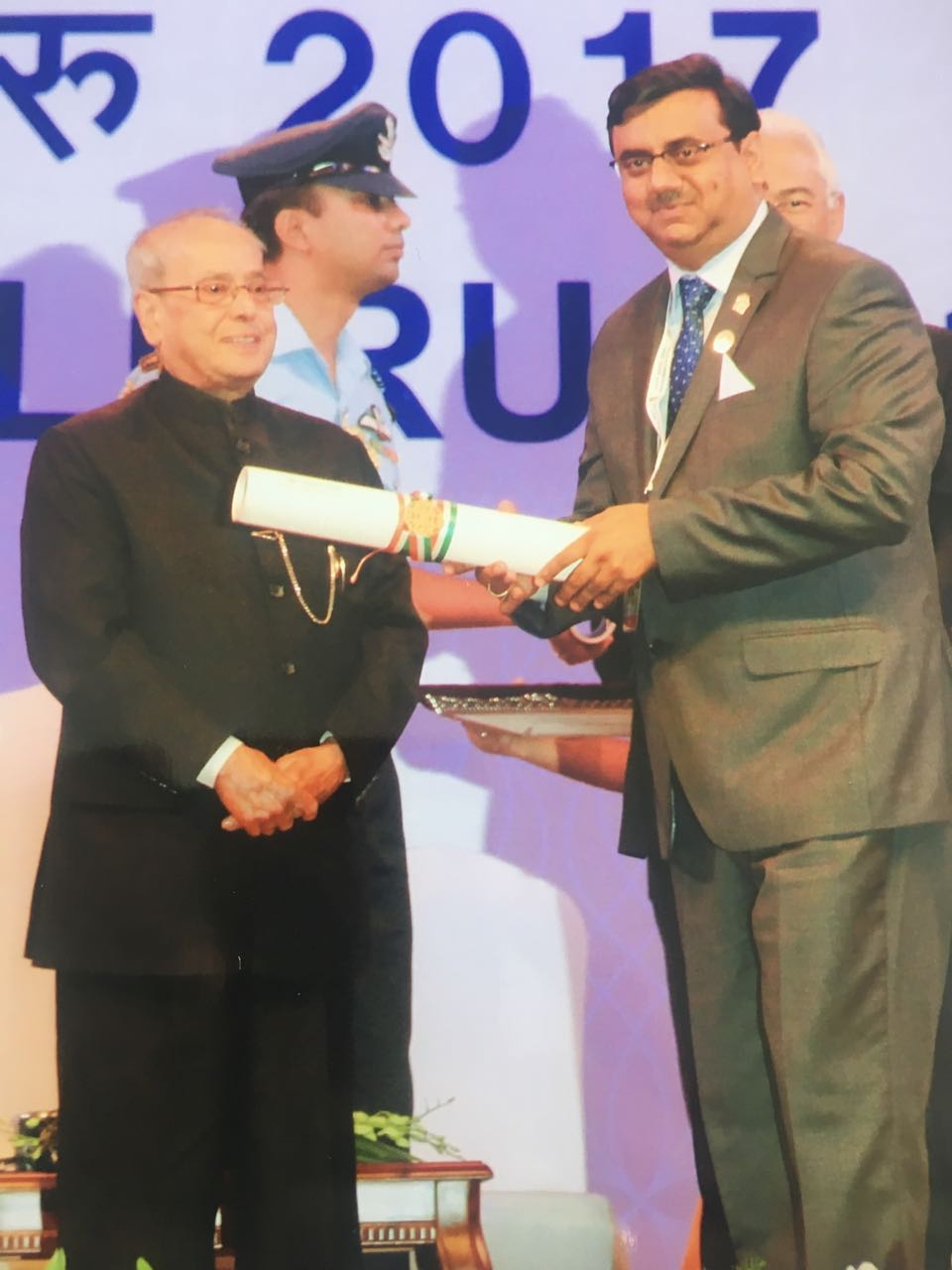 Mukund Purohit receiving Pravasi Bhartiya Sampan Award from president of India.